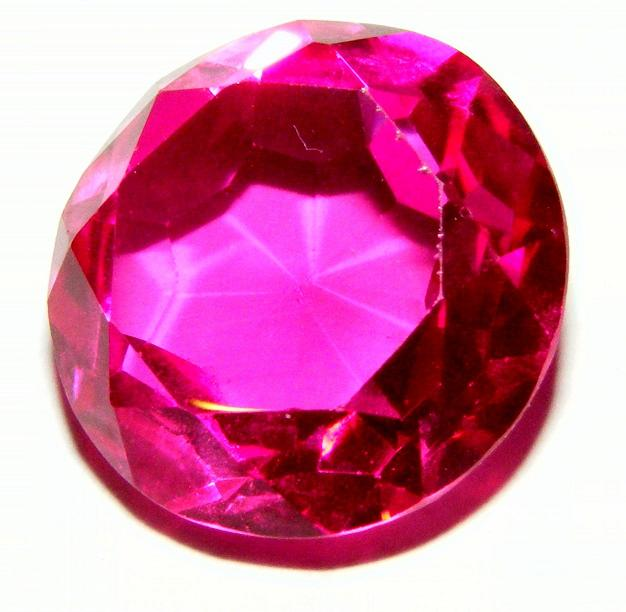 ruby; red corundum